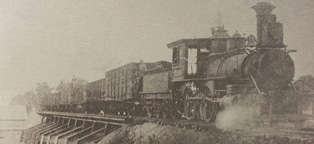 Strasburg Rail Road engine 929 in Strasburg, PA in 1894